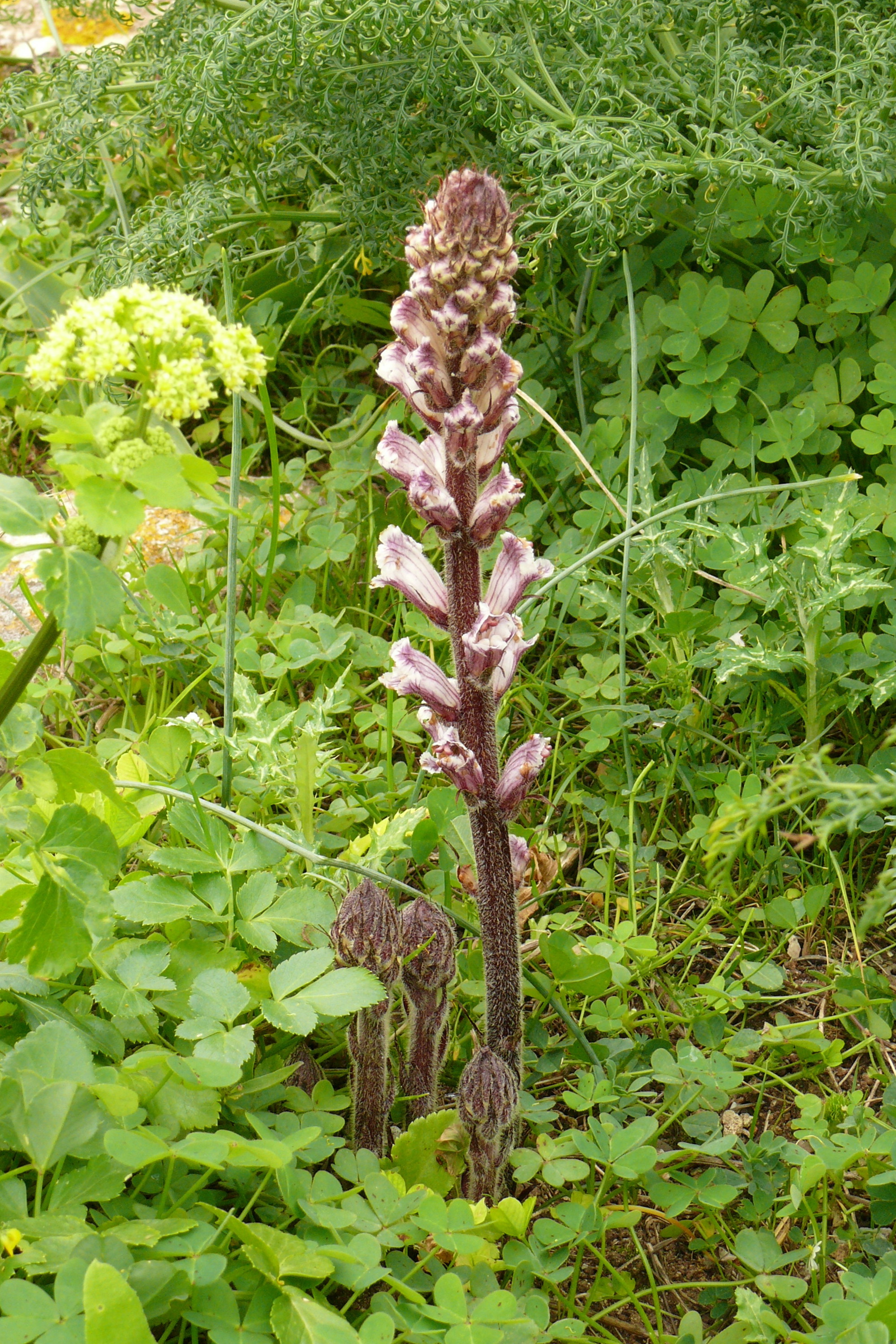 Orobanche sp.